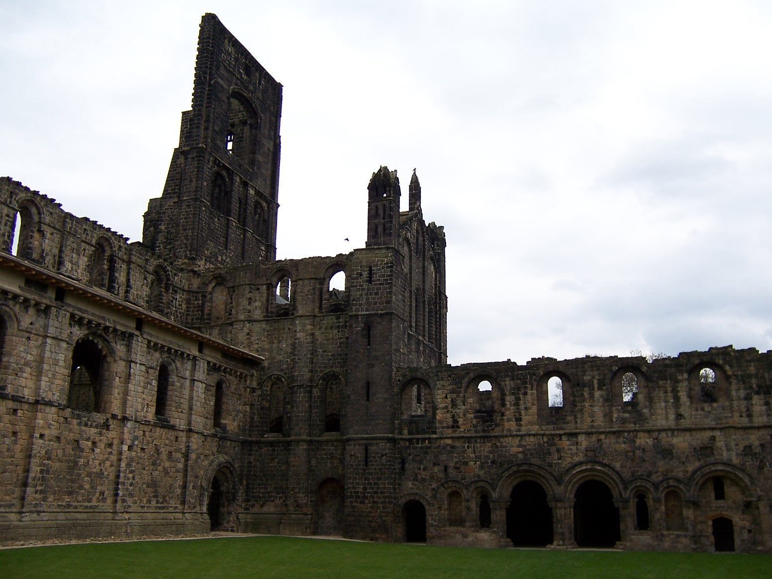 cloister of Kirkstall Abbey in Leeds, Yorkshire (England) own work; photo taken on 30 April 2006